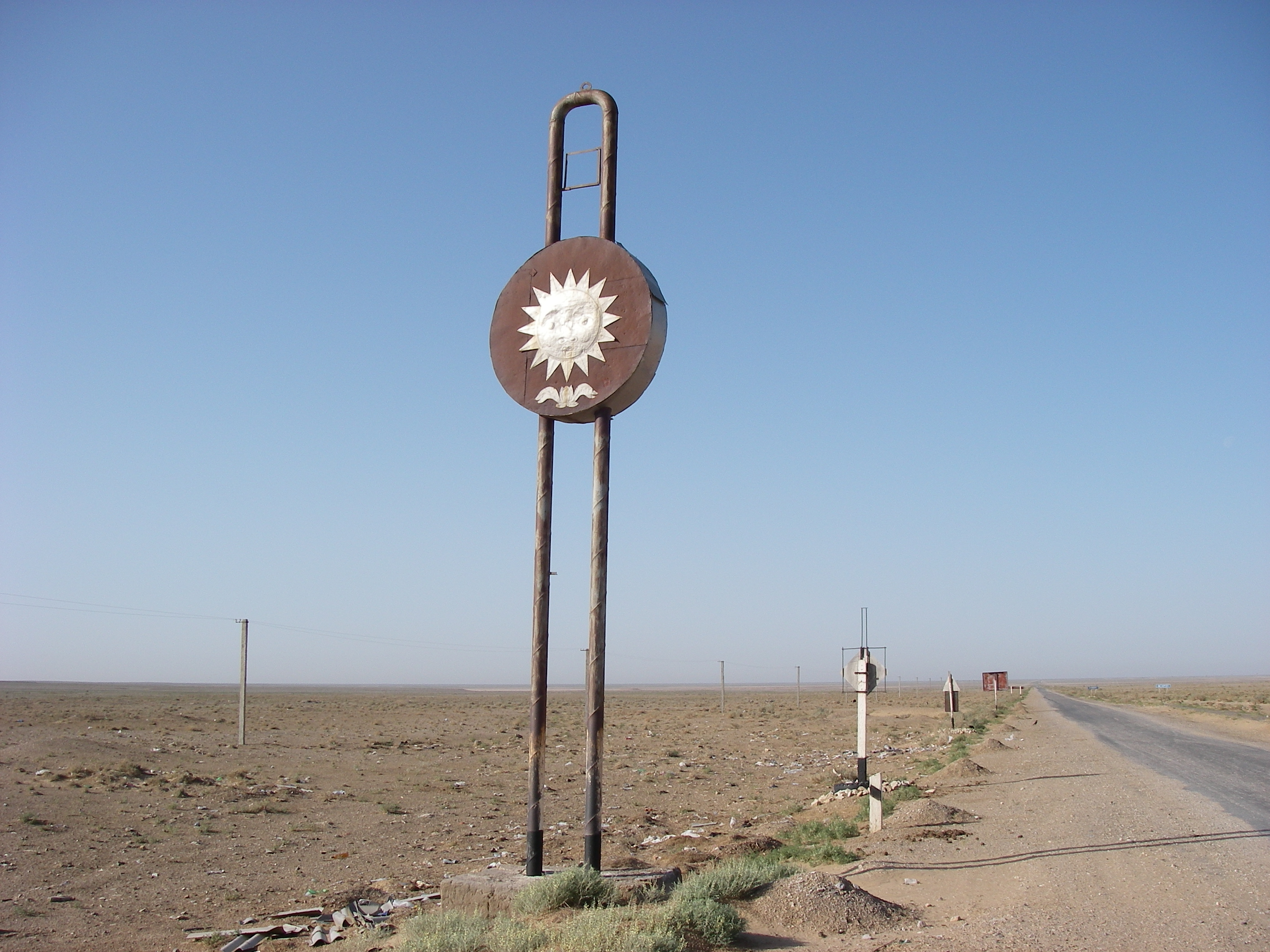 In the Kyzyl Kum on the south side of Dzhangeldy, Uzbekistan.